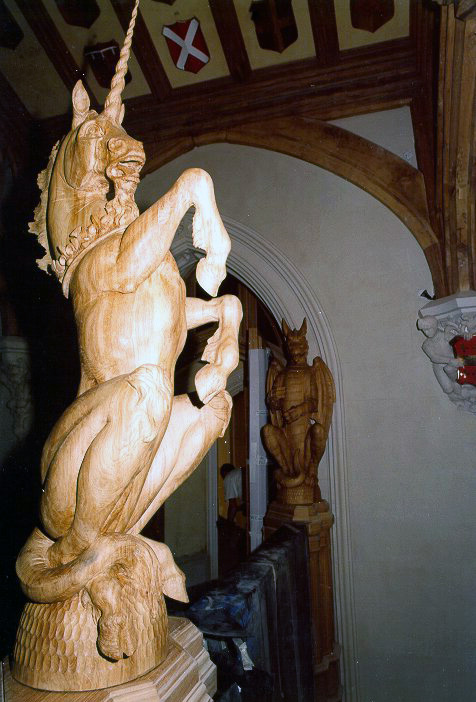 carving for Windsor Castle after the fire by G&H Studios; on permanent exhibition in St George's Hall, a public place at Windsor Castle.